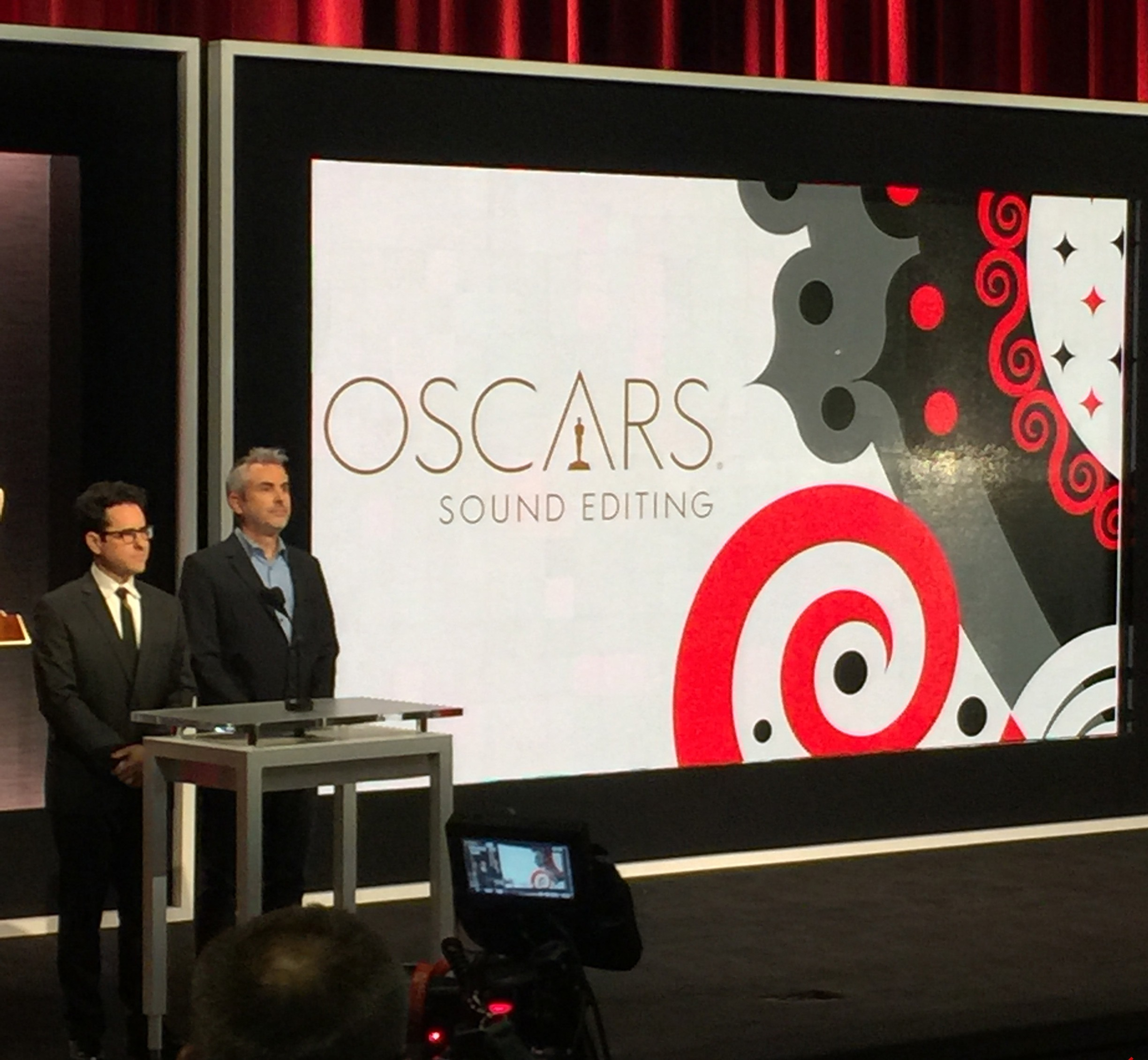 Directors J.J. Abrams and Alfonso Cuarón at the 87th Oscars Nominations Announcement Mingle Media TV and Red Carpet Report host Cathy Kelley were invited to come out to cover the live nomination announcement of the 87th Academy Awards at the early morning telecast presented by Academy President Cheryl Boone Isaacs along with Directors Alfonso Cuarón and J.J. Abrams and actor Chris Pine.